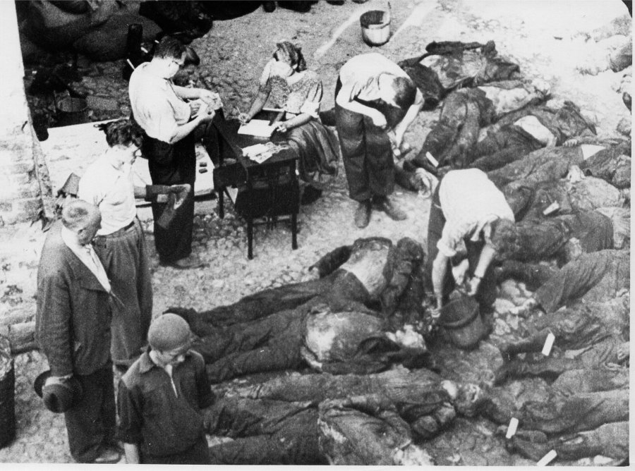 People massacred by Soviet NKVD on 8 July 1941 in Tartu prison, in Estonia. 192 people were killed.